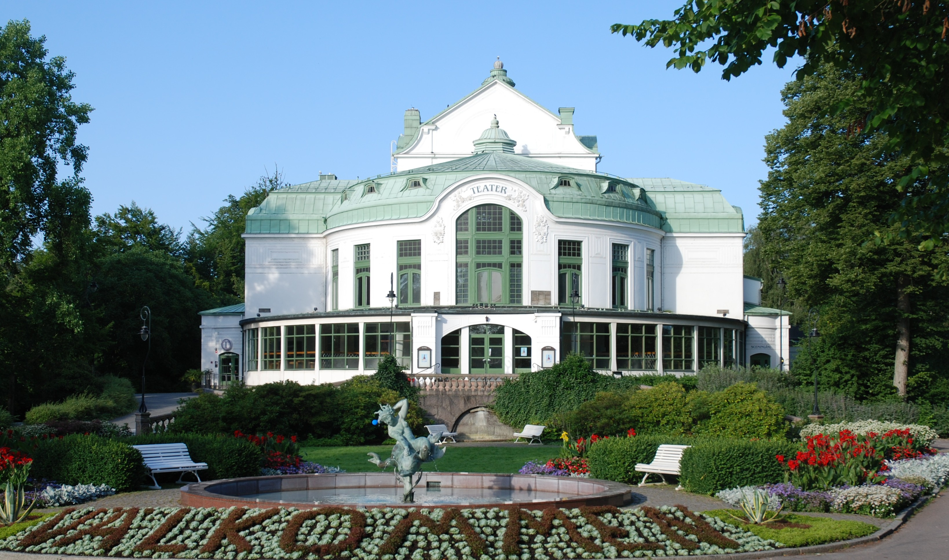 Kristianstads teater, Tivoliparken, Kristianstad, Sweden. The theatre building is drafted by Axel Anderberg and was inaugurated September 1, 1906. In the foreground the skulptur Solglitter by Carl Milles